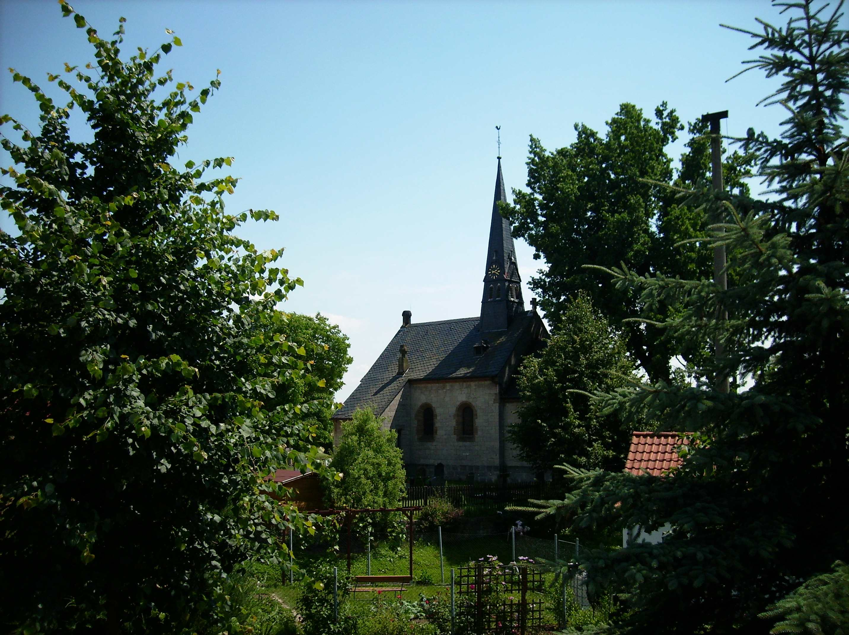 Taugwitz church (Lanitz-Hassel-Tal, district of Burgenlandkreis, Saxony-Anhalt)